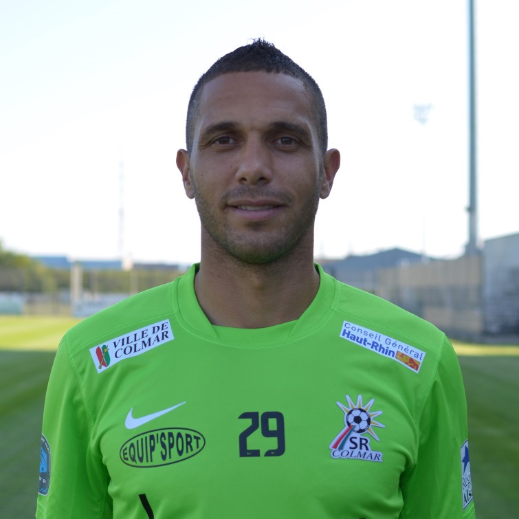 SR Colmar